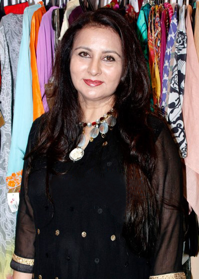 Poonam Dhillon at the ‘Celebrating Vivaha’ exhibition.